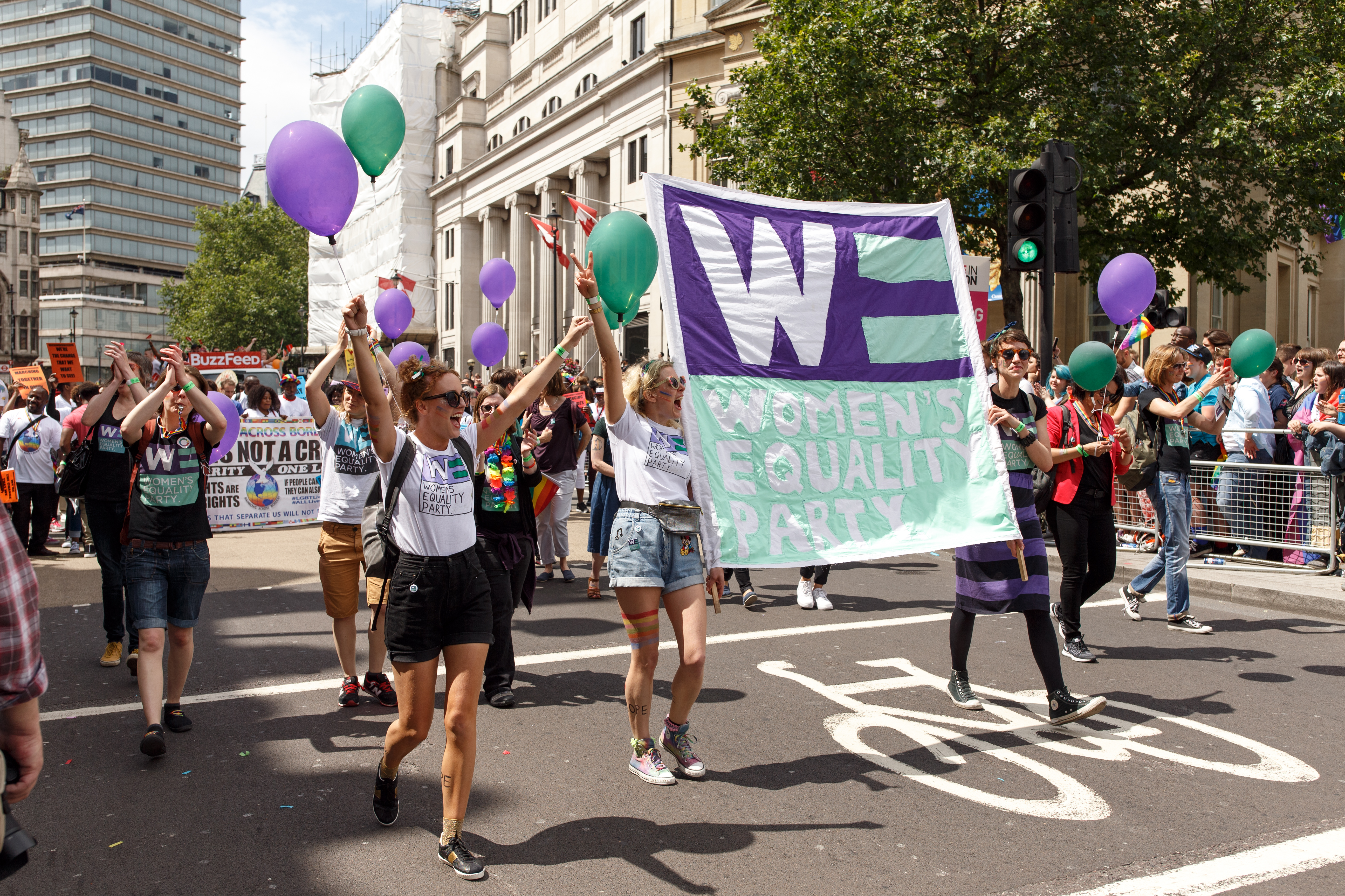 Members of the Women's Equality Party in the parade at Pride in London 2016.